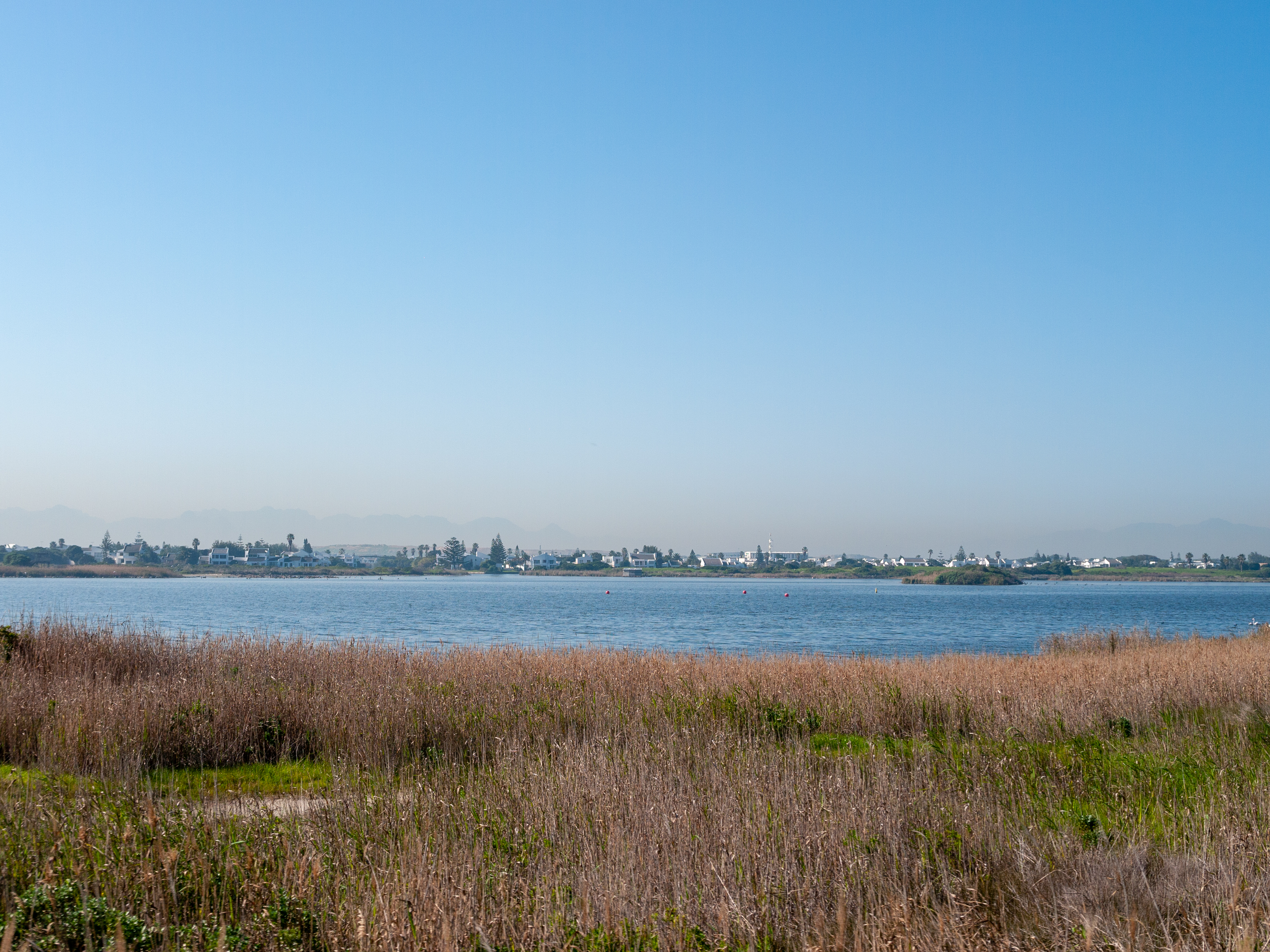 Metrorail, Cape Town